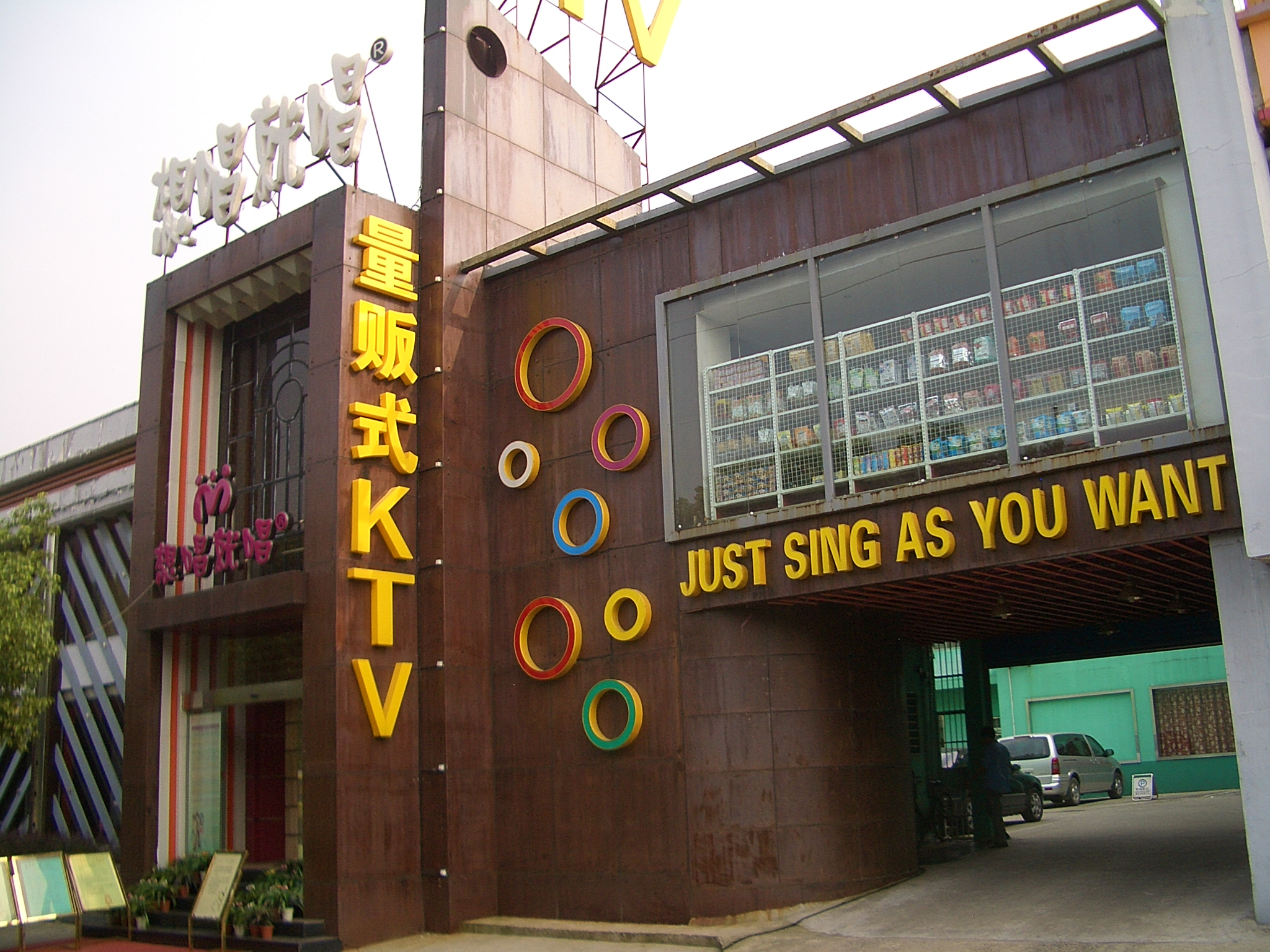 A karaoke place in Wuhan, in Luoyu E. St. (Across the street from the HUST campus)